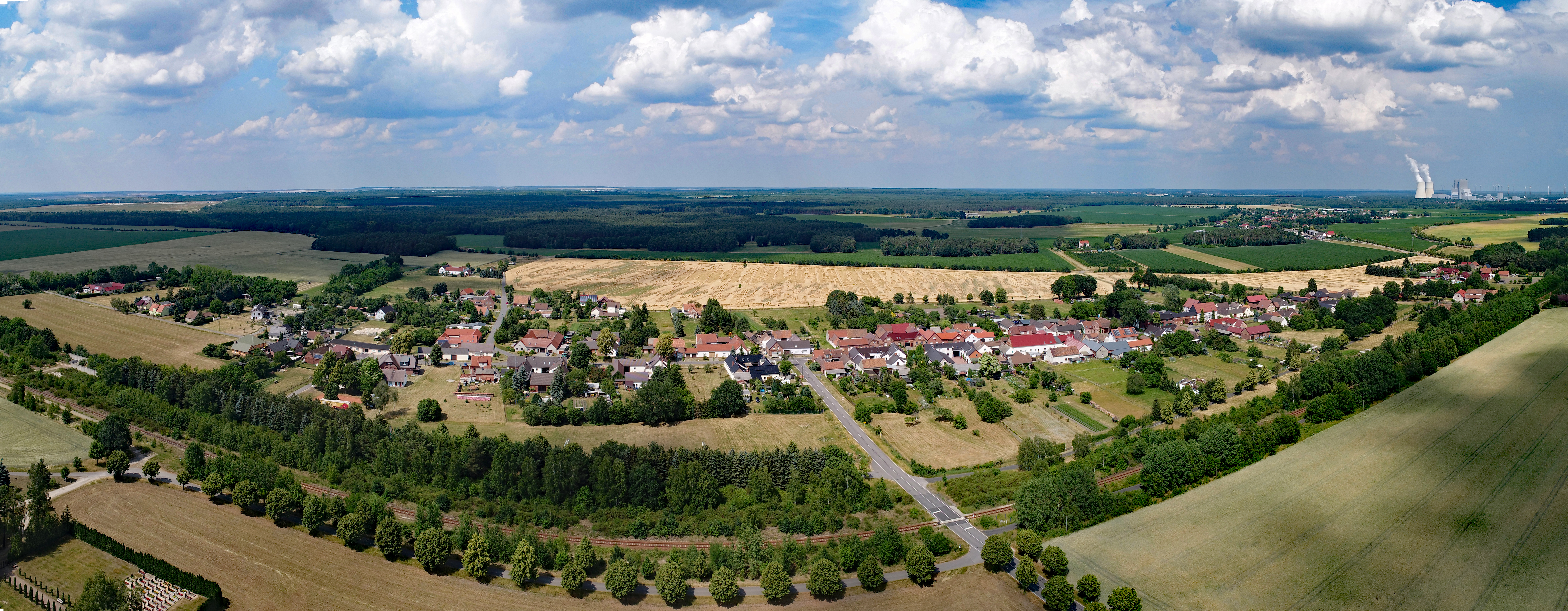 Sabrodt (Elsterheide, Saxony, Germany) Hornjoserbsce: Powětrowy wobraz Zabroda